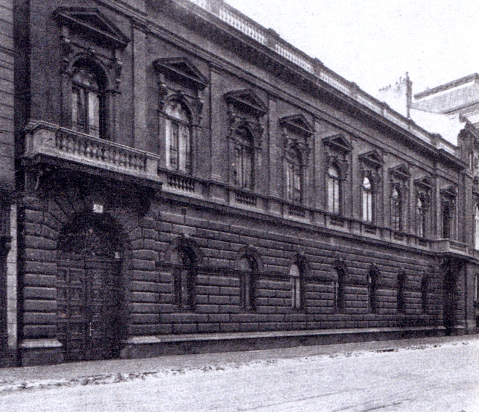 Palais Wittgenstein, Ludwig Wittgenstein's birthplace